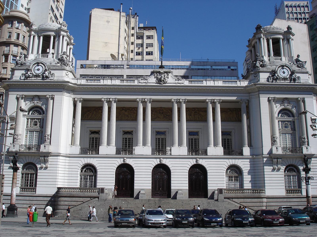 Pálacio Pedro Ernesto (Pedro Ernesto Palace) in Cinelândia square, in Rio de Janeiro, Brazil.